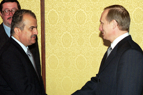 PRESIDENT HOTEL, MOSCOW. With Jordanian Foreign Minister Abdul Illah Khatib.